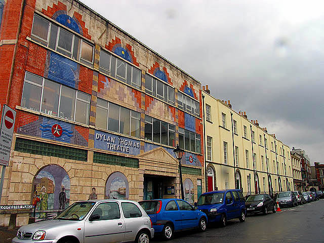 Dylan Thomas Theatre: Swansea. Home to Swansea Little Theatre. This theatre is situated on the Dylan Thomas square at the marina, on Gloucester Place.